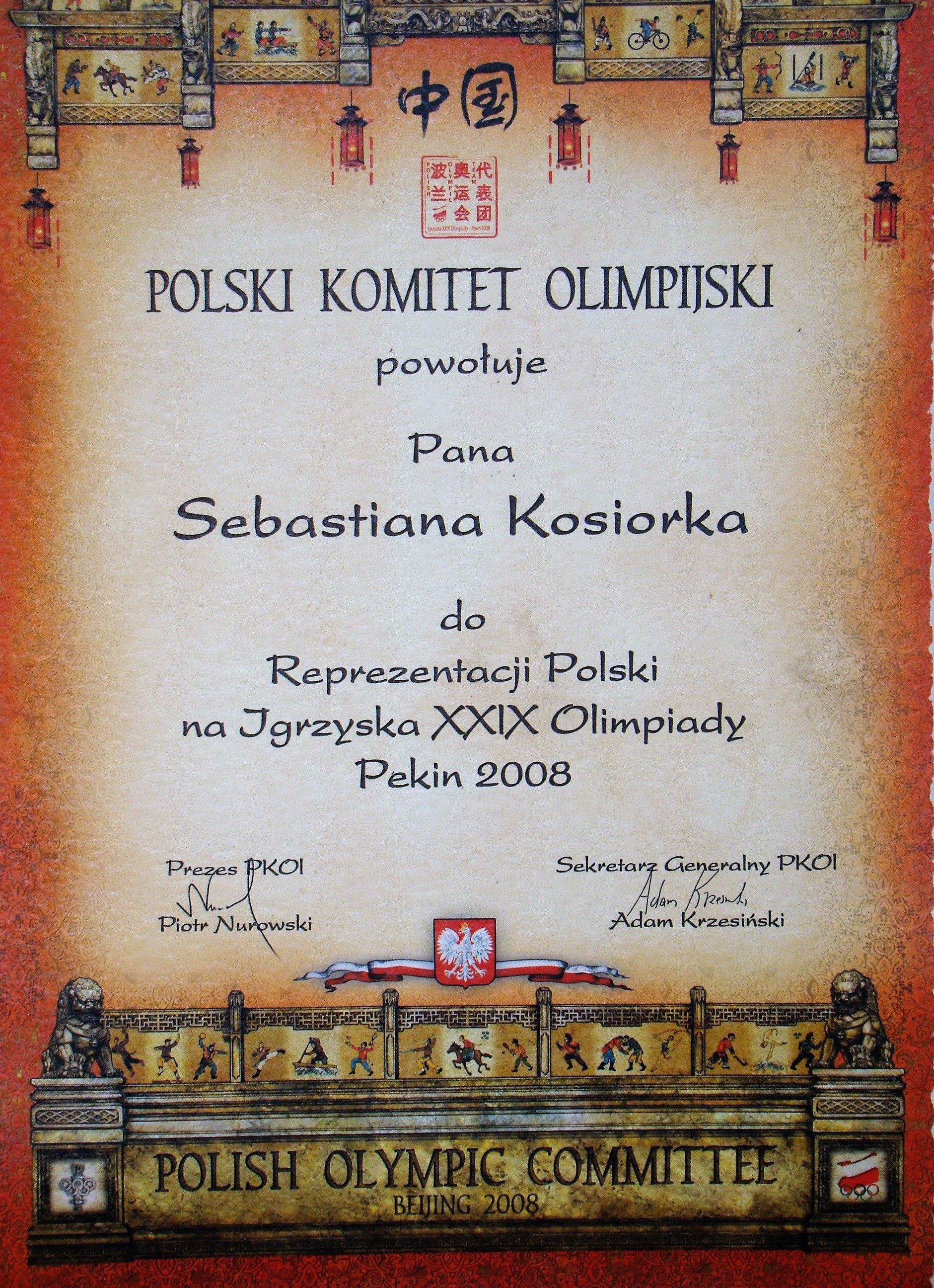 Sebastian Kosiorek - olympic nomination, Beijing 2008 Olympic Games